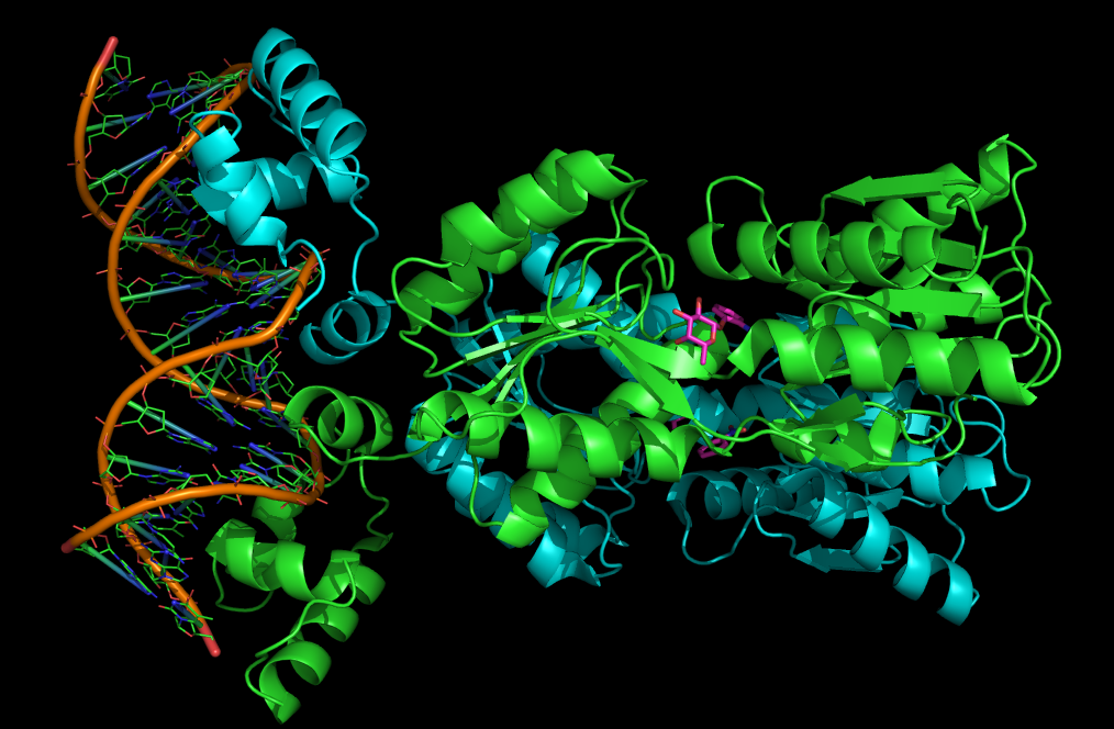 complex between the Lac operator (DNA) and the Lac repressor. The inducer (allolactose) bound to the repressor dimer can be seen in purple